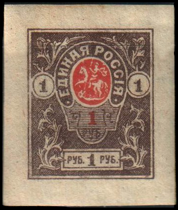 Stamps Army of South Russia (General Denikin)